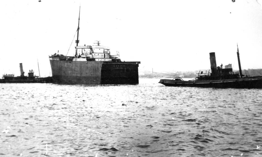 New bow, towed form Belfast